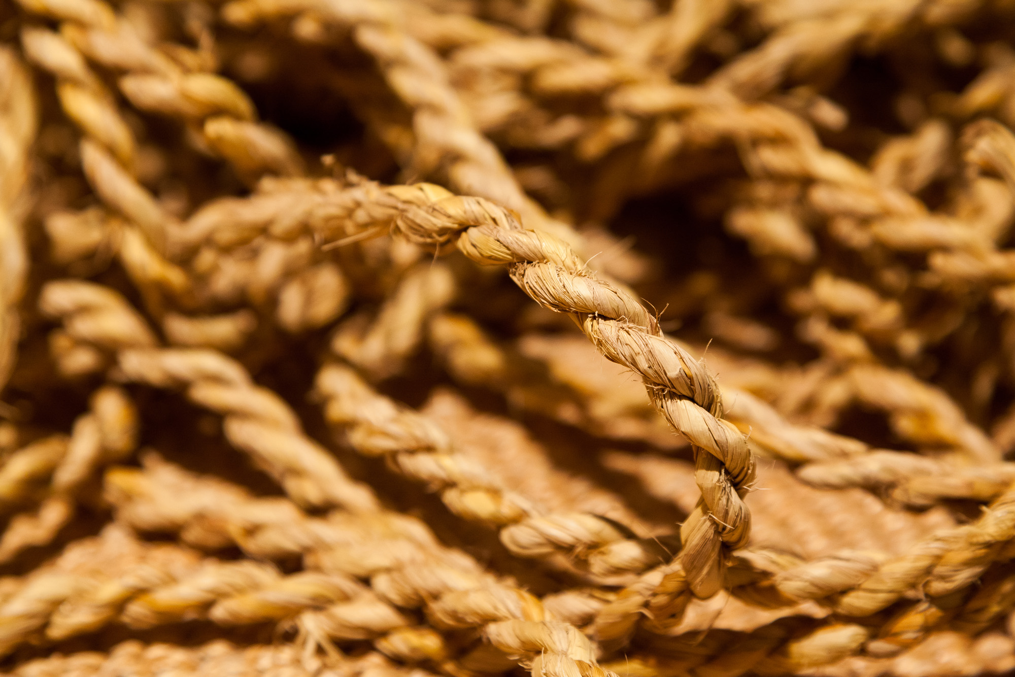 Saekki (rice straw ropes)